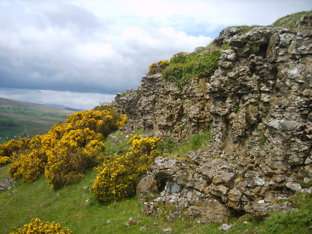 Knipe Scar Limestone scar near Bampton. The Lake District hills were once capped with Limestone now only the edges remain